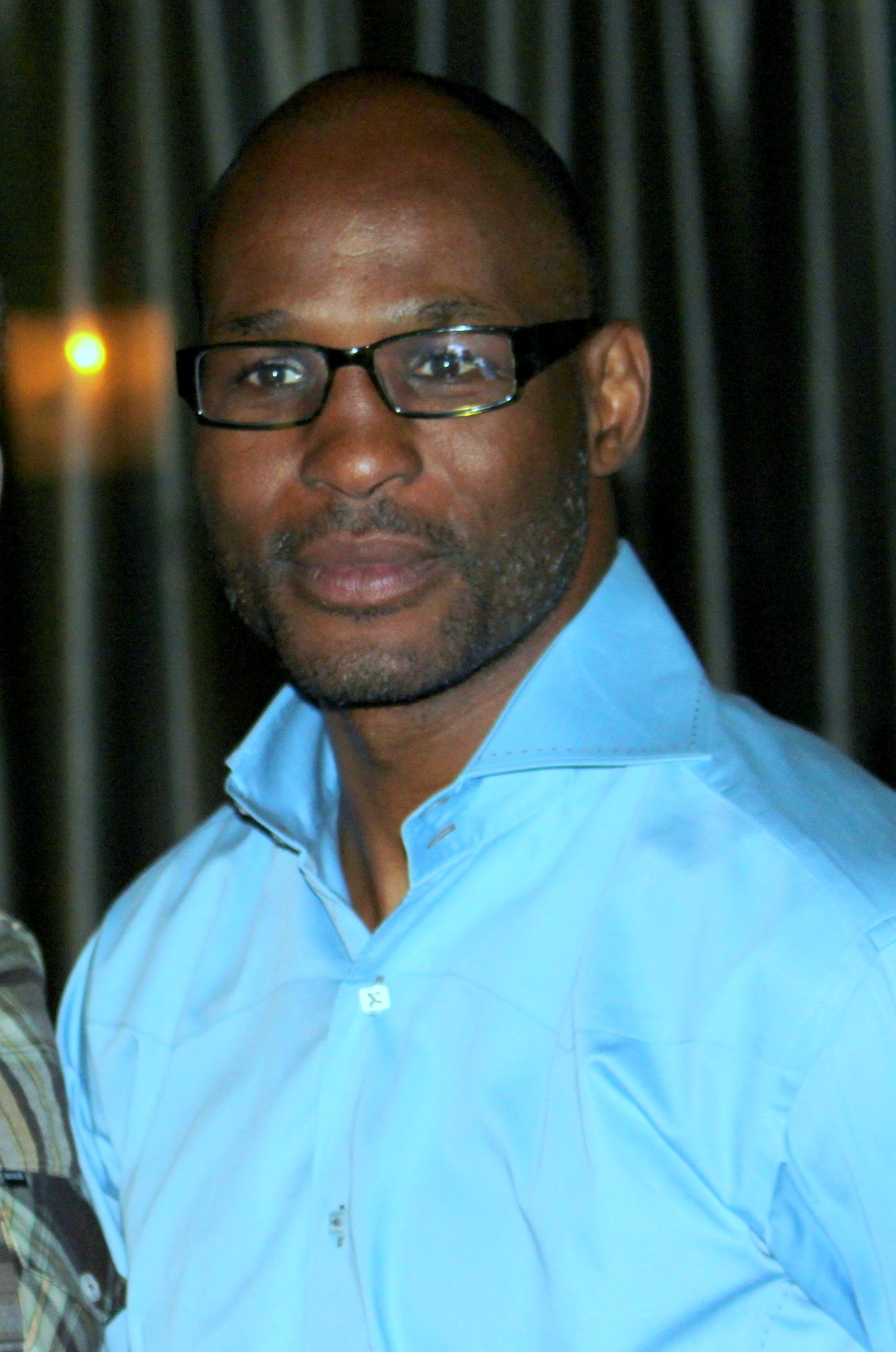 Bernard Hopkins at the Fight Night Club event.